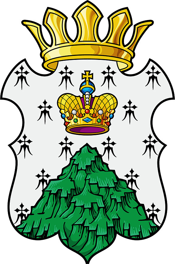 Coat of Arms of municipality "Valdaysky rayon" (Novgorod oblast in Russia)